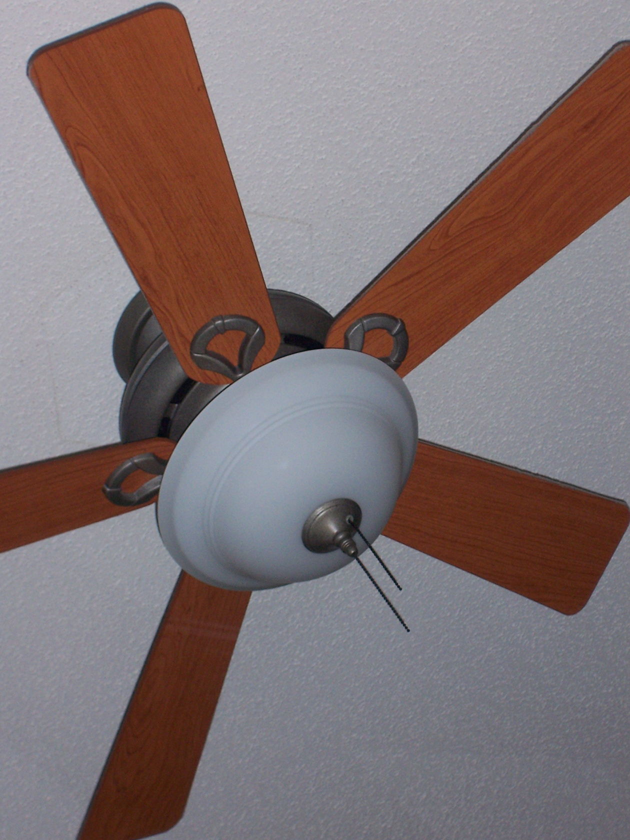 A Hunter-branded "Eclipse", which is a basic modern ceiling fan with standard pull-chain controls for the fan motor and light kit. Own work, Jan 7, 2006.